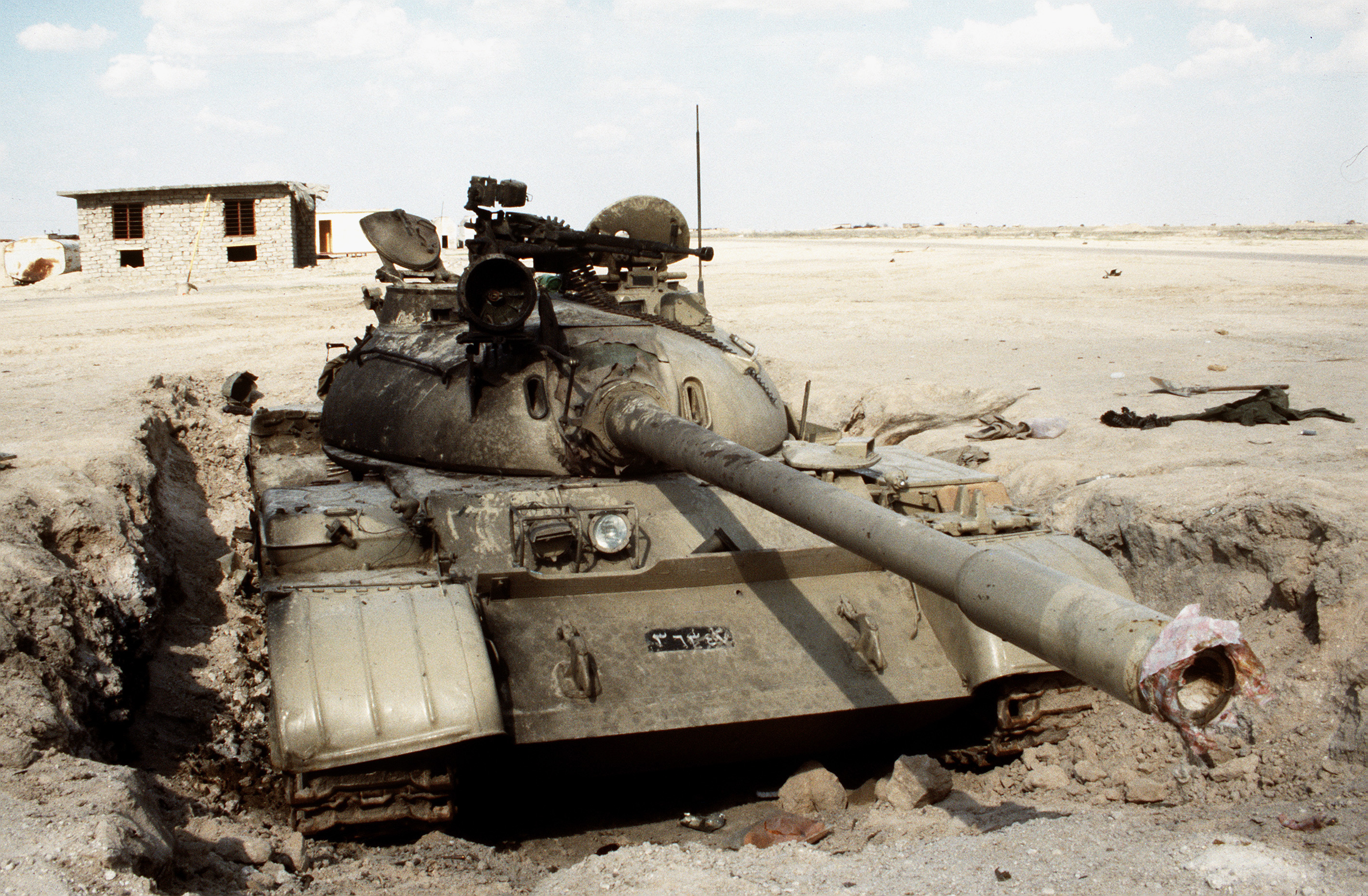 A destroyed Iraqi T-55 main battle tank stands in the sand at Jalibah Airfield following the liberation of Kuwait by Allied forces during Operation Desert Storm.